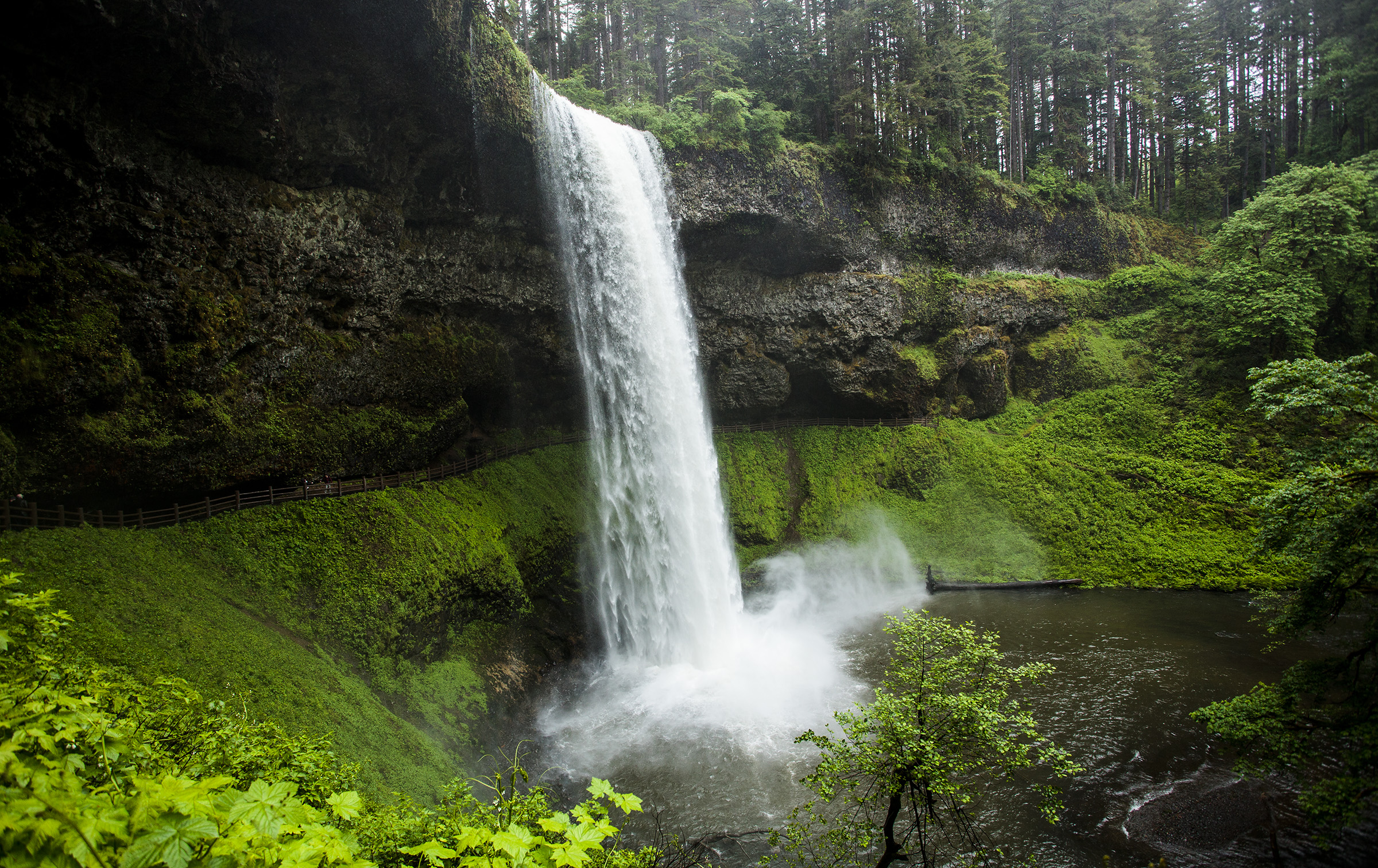 waterfall near Silverton Oregon